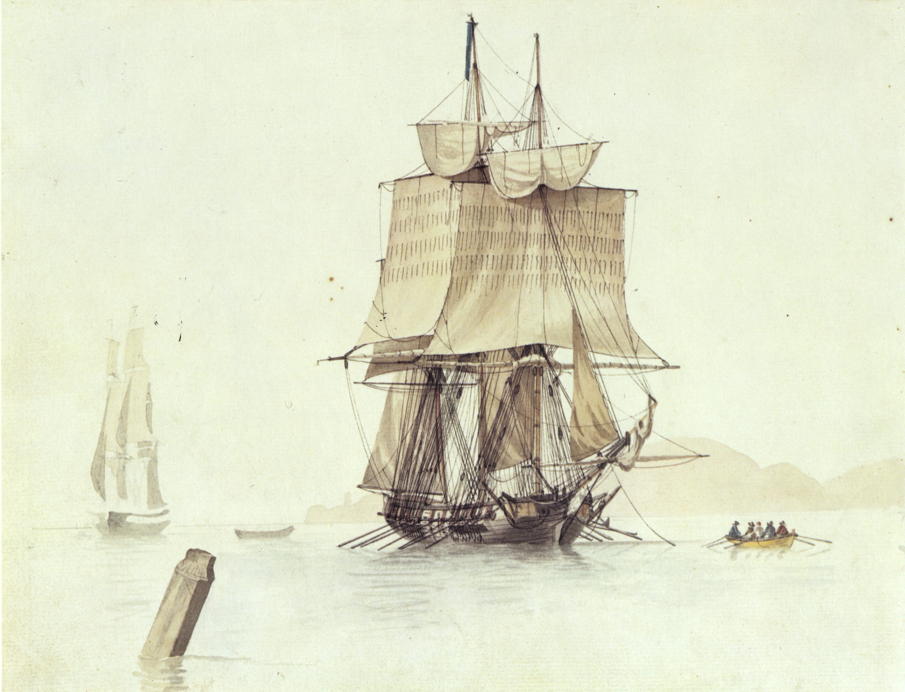 Becalmed privateer. Possibly the Babiole, a privateer built in La Ciotat in the very early 19th century.